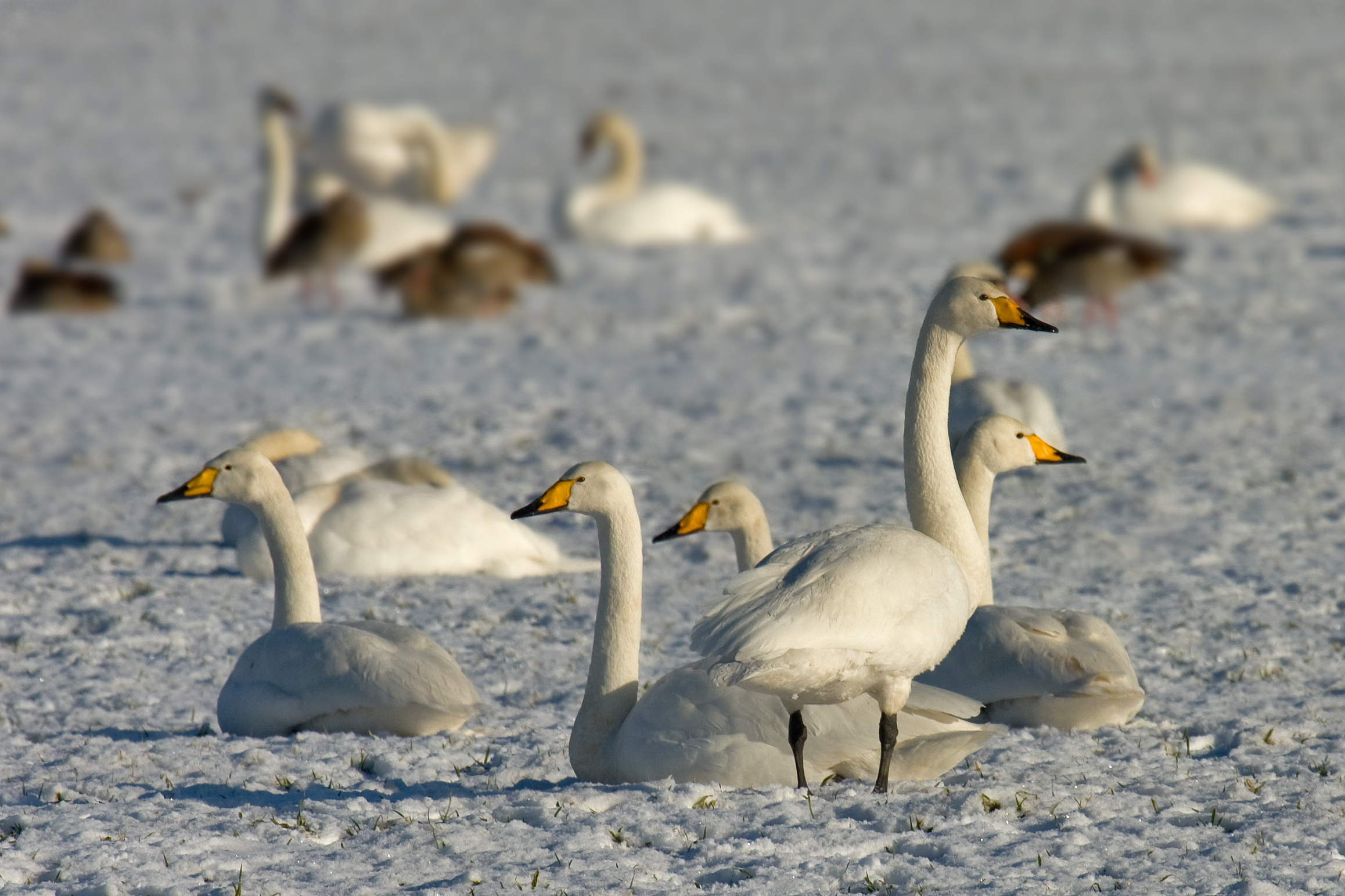 A group of Whooper Swans